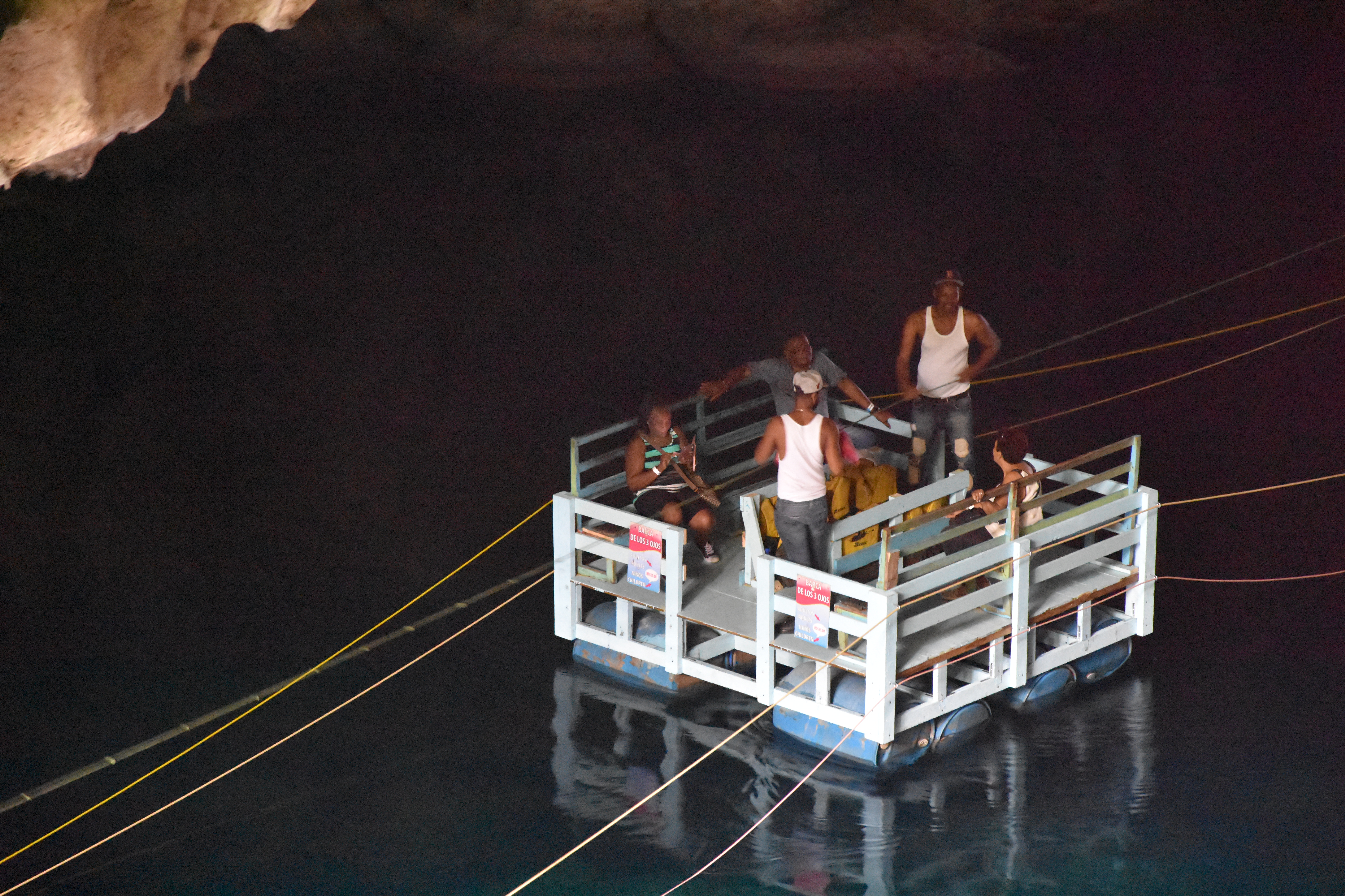 Los Tres Ojos national park in Santo Domingo Este, Dominican Republic.